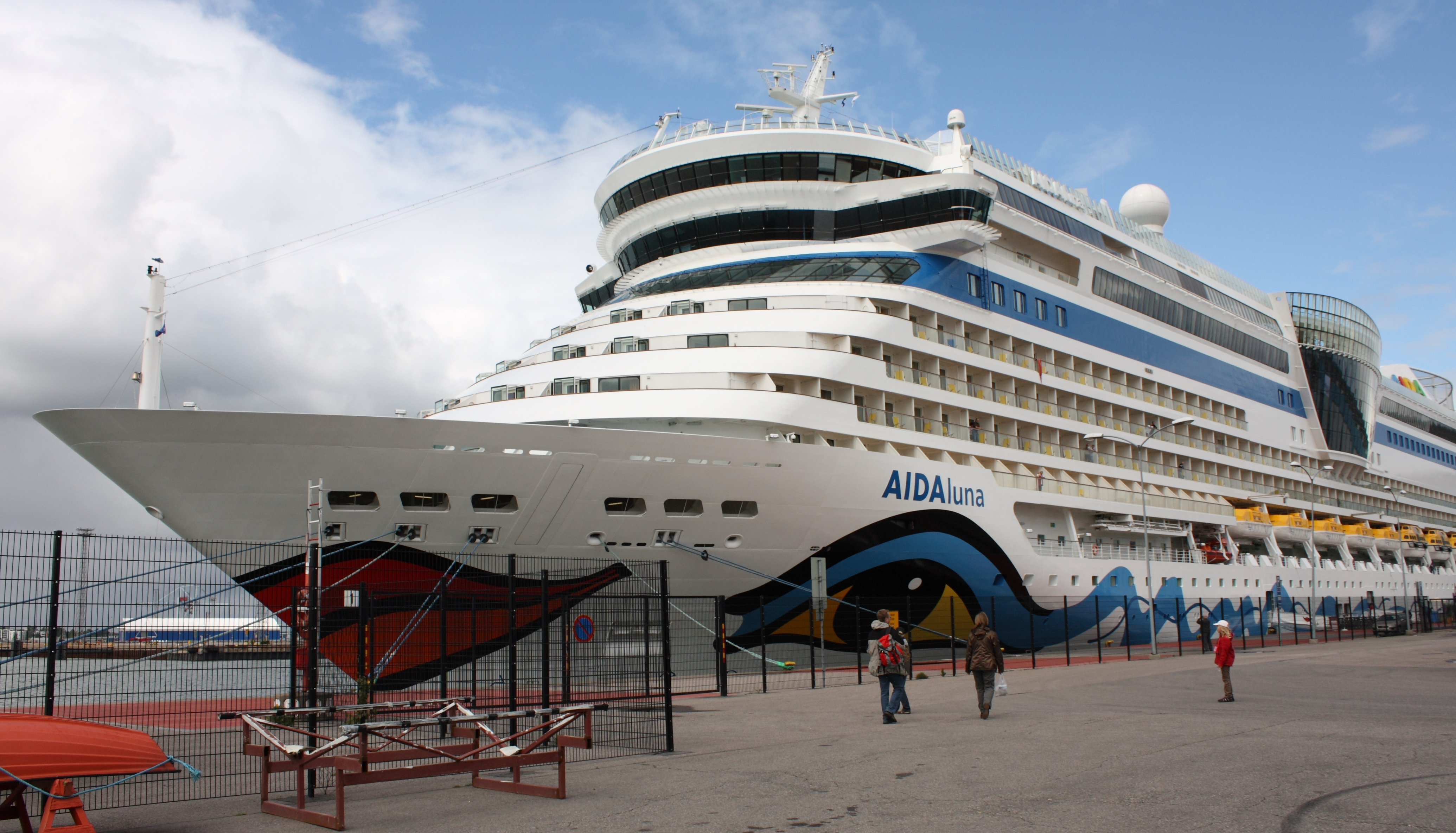 MS AIDAluna in West Harbour, Helsinki, Finland